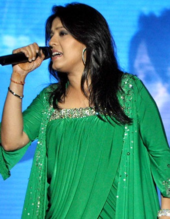 Sunidhi's live concert at Vadodara International Half Marathon